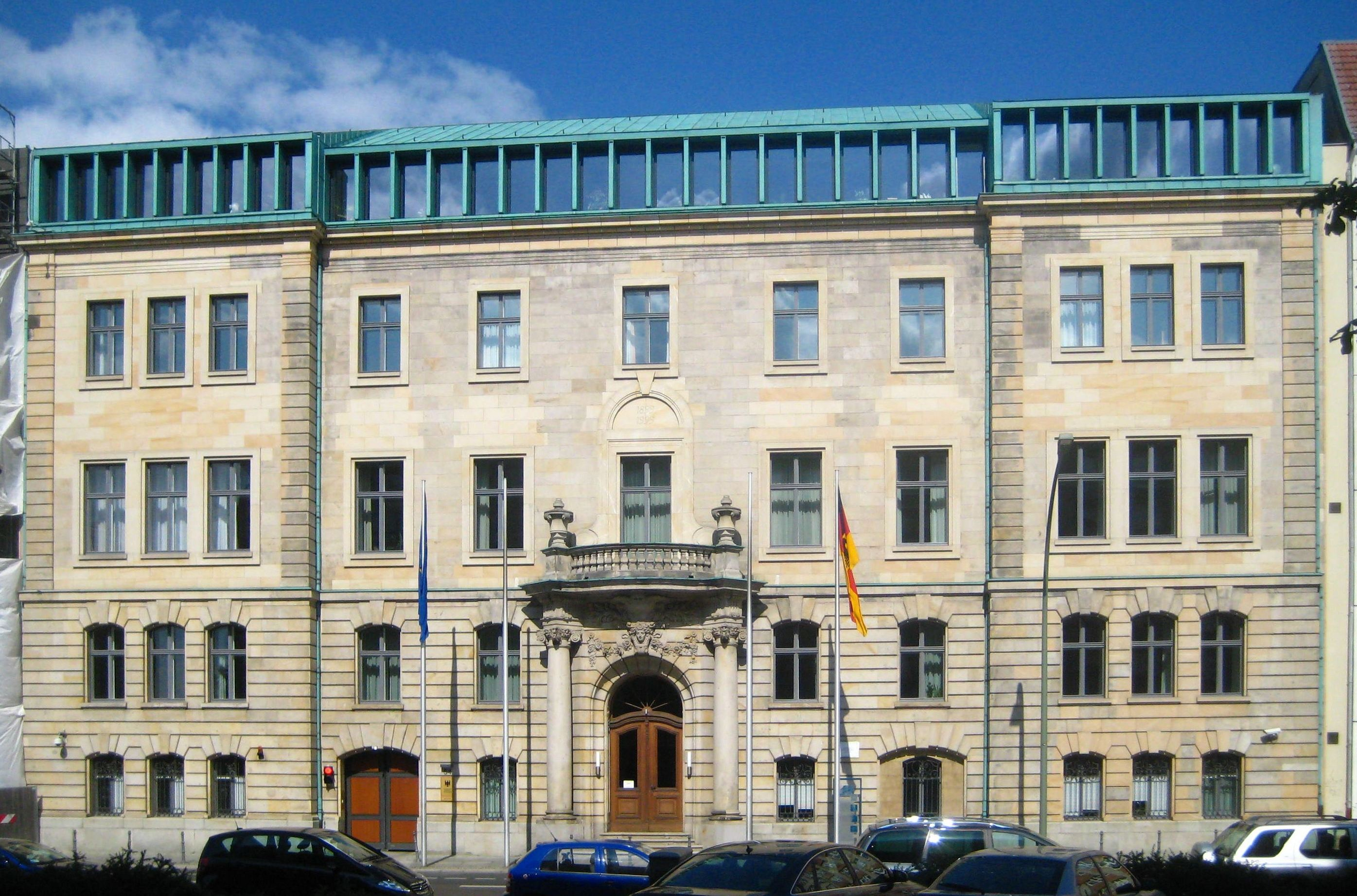 The "Privy Civil Cabinet of the Emperor" at Wilhelmstraße 54 in Berlin, built 1900-1901 by architect Carl Vohl. It is one of the few buildings of the Reich's government district around Wilhelmstraße that survived WWII. The building was also used by the Prussian Ministry of State and the Generallotteriedirektion. In 1936, it became the seat of the Reich Leadership of the Nazi party. Since 2000, the building is used by the Federal Ministry of Food, Agriculture and Consumer Protection.